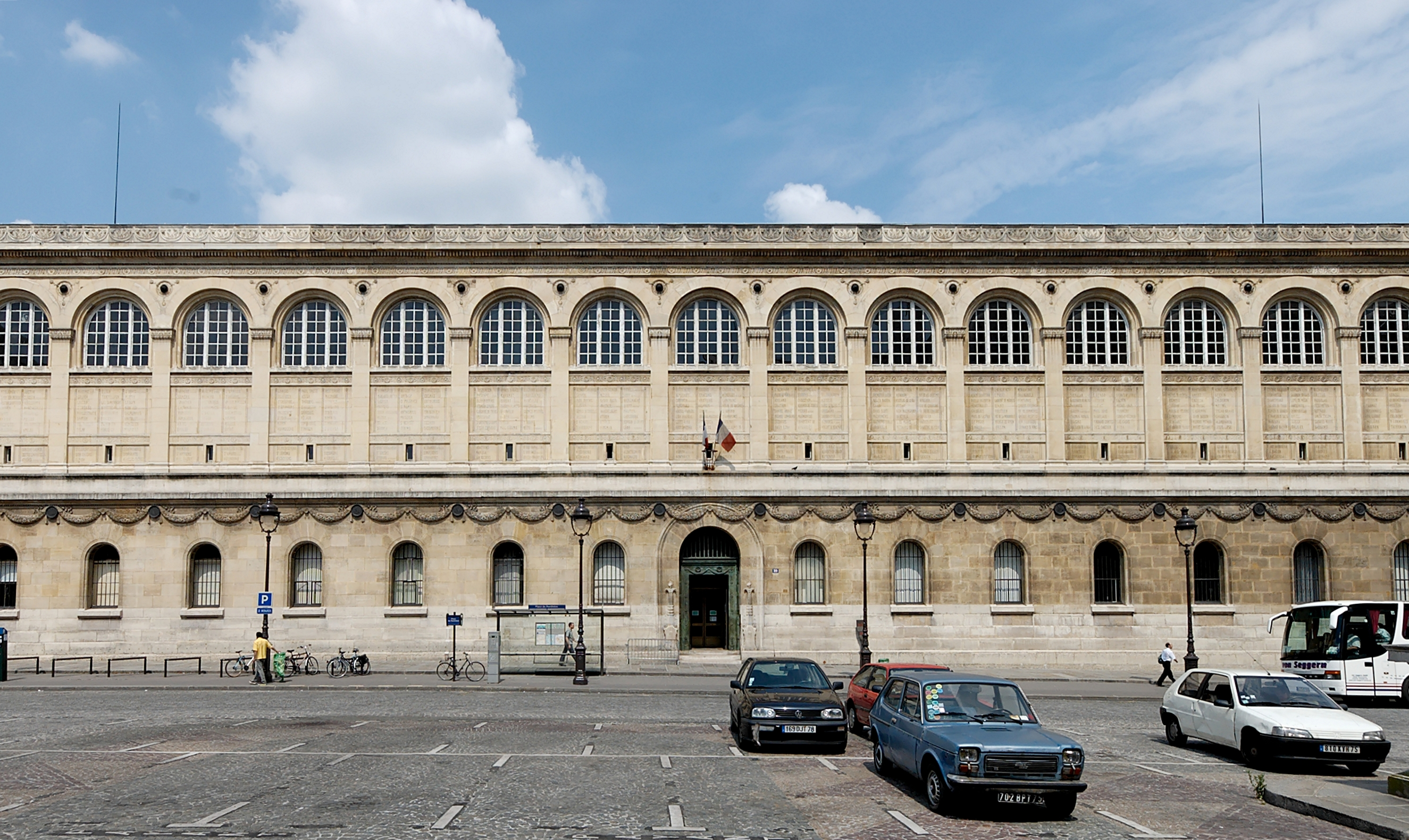 Façade of the Bibliothèque Sainte-Geneviève, an academic library located on the Montagne Sainte-Geneviève. It was designed in Neo-Grec style by the architect Henri Labrouste (1801–1875). Place du Panthéon, Paris.